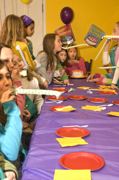 Children's Museum & Theatre of Maine Birthday Party Room